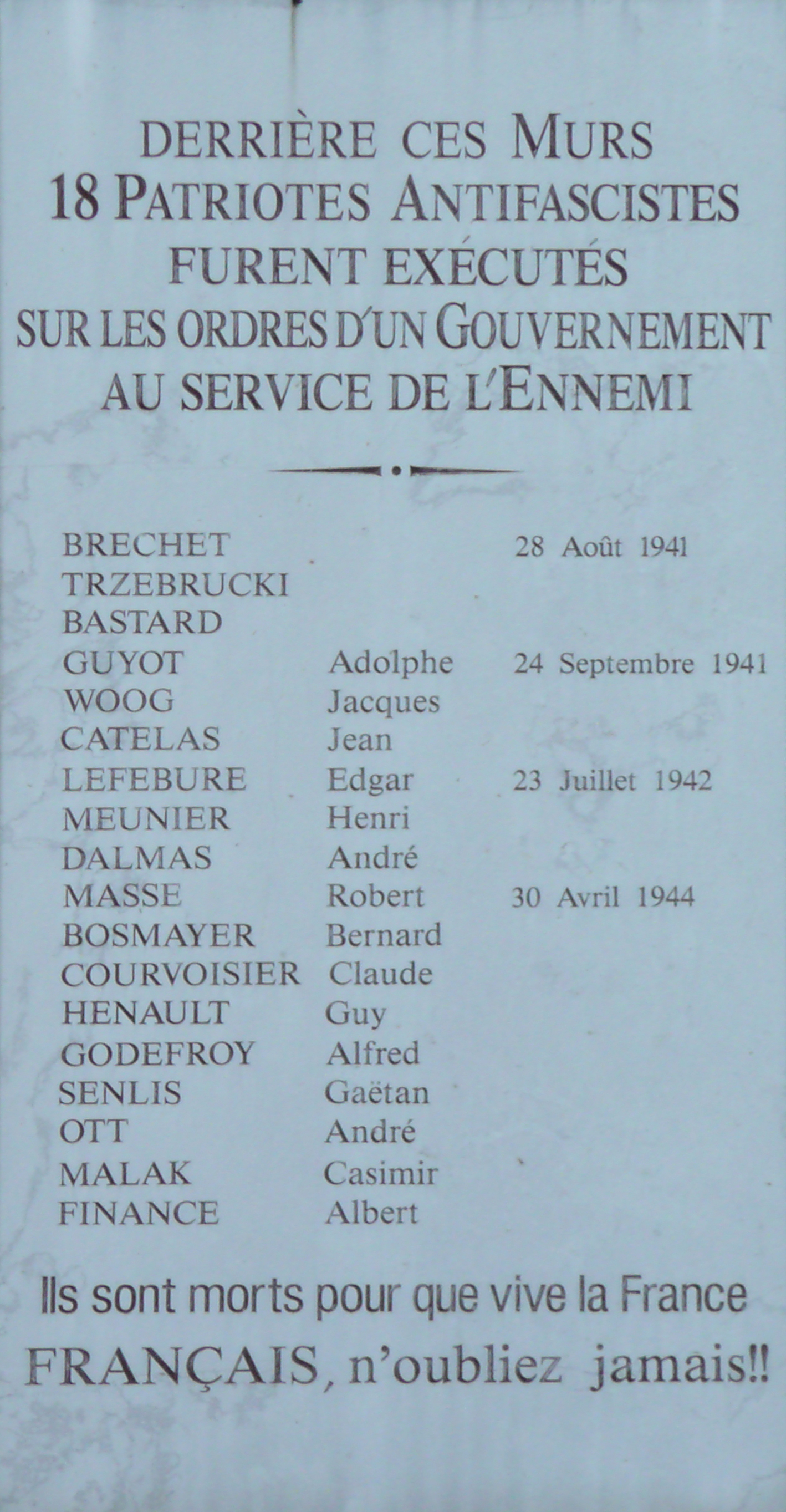 Commemorative plaque on the wall of the La Santé Prison at the streets of Rue Jean Dolent and Rue de la Santé - It commemorates 18 anti-Fascist figures who were executed